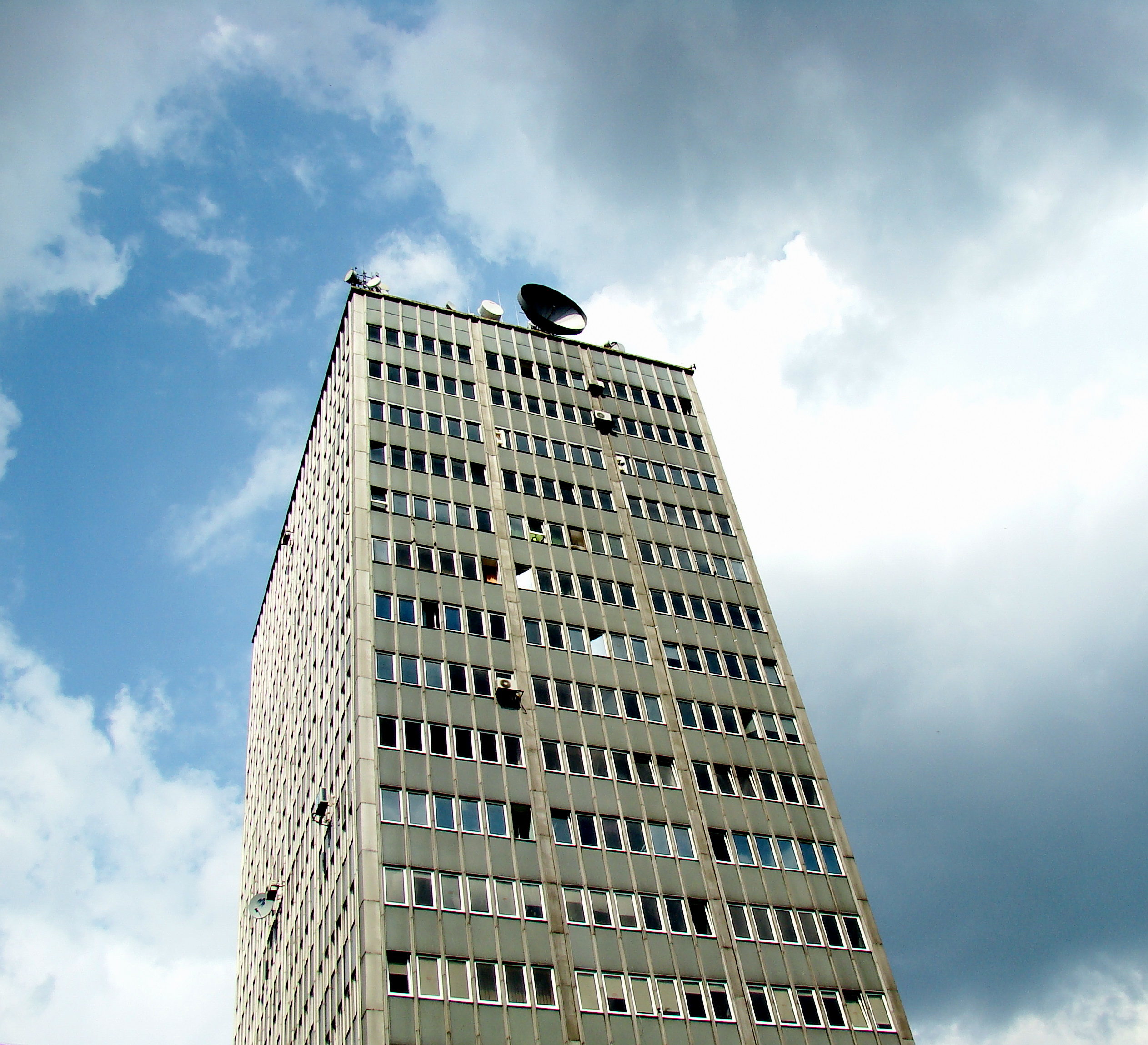 PRITV skyscraper, Szczecin, Poland